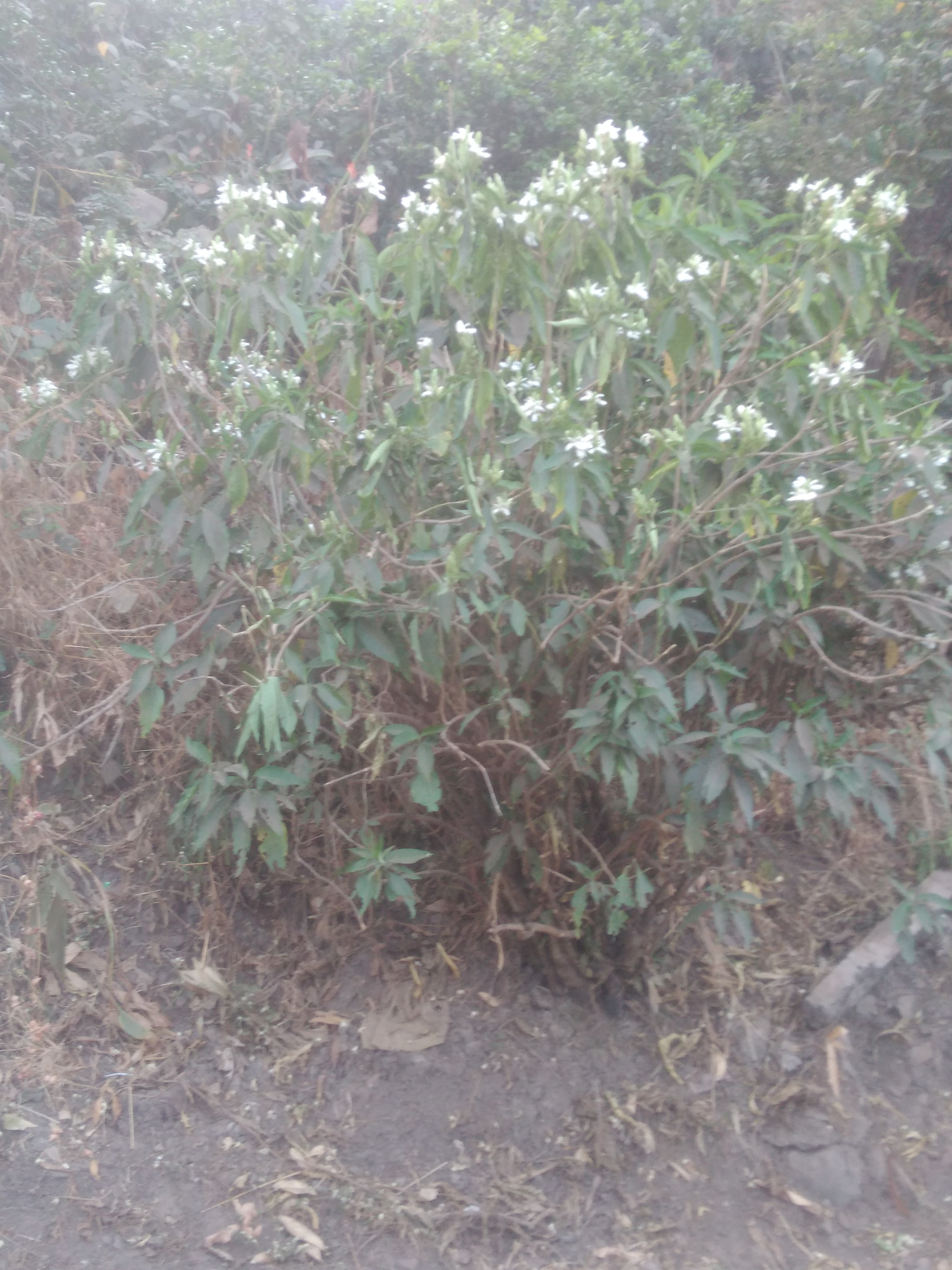 अडुळसा